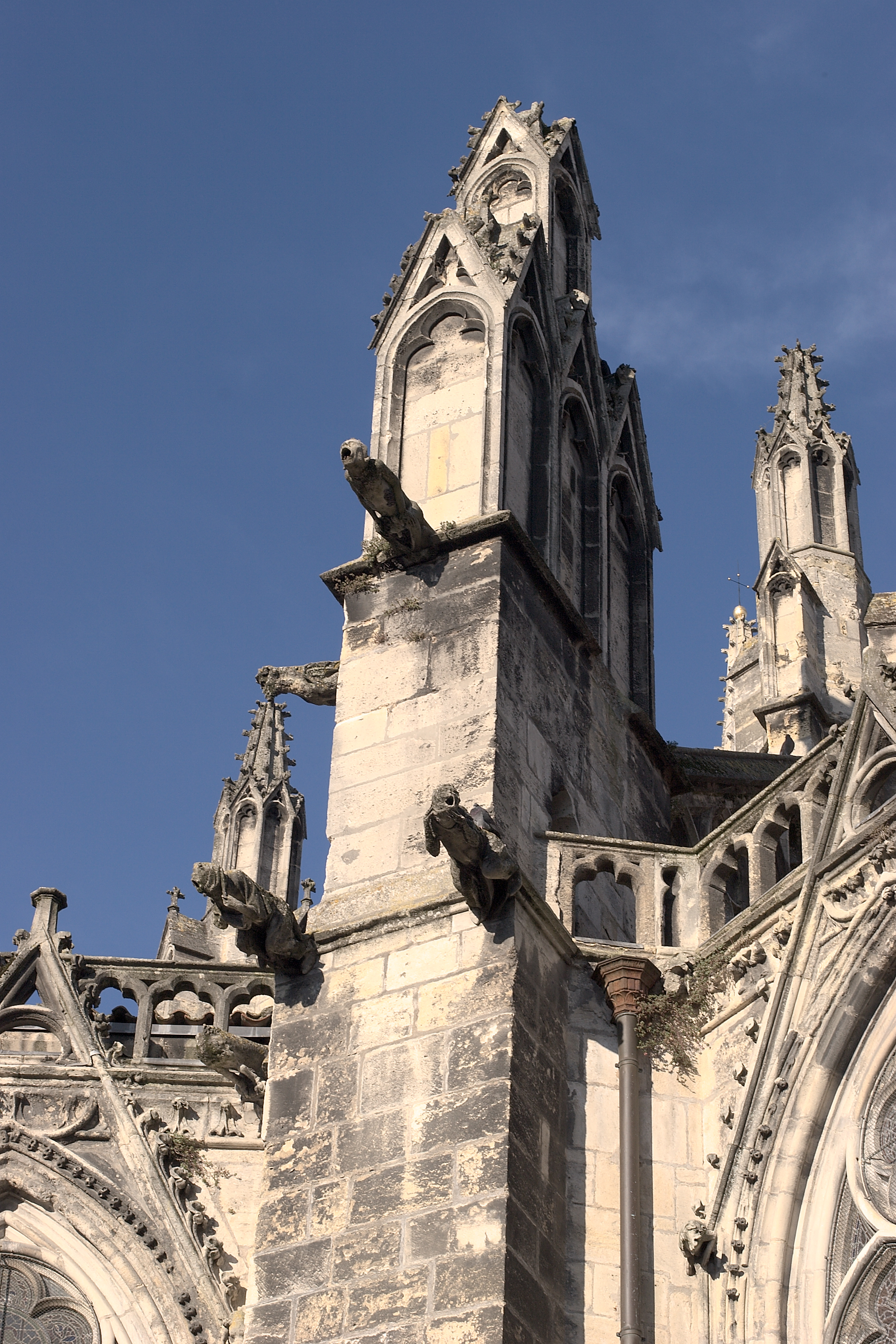 Gargoyles of Saint-André Cathedral in Bordeaux, France.